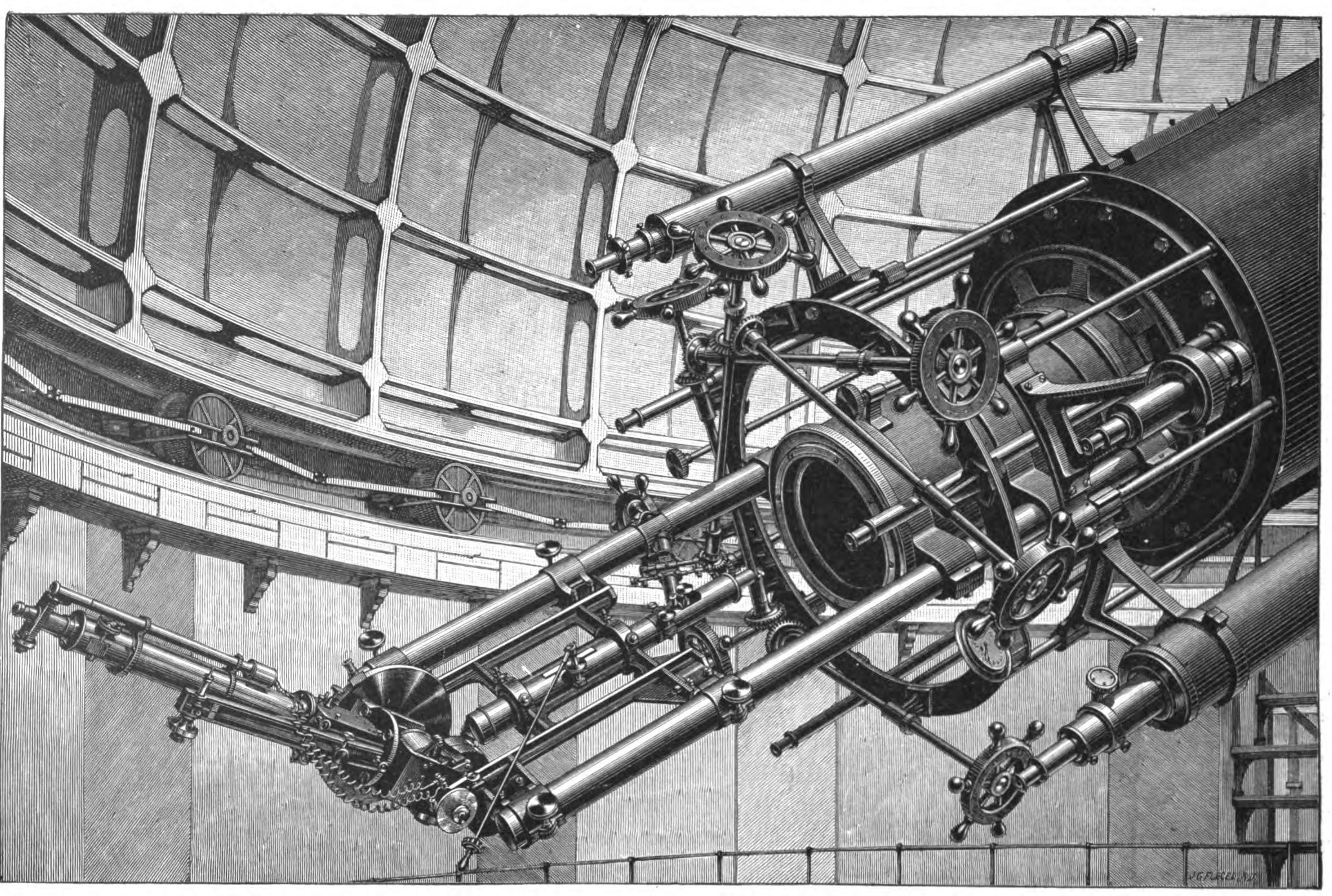 "The Star-Spectroscope of the Lick Observatory" designed by James Keeler and constructed by John Brashear. From: "Treatise on Astronomical Spectroscopy: Being a Translation of Die Spectralanalysis Der Gestirne" by Julius Scheiner and translated by E. B. Frost.